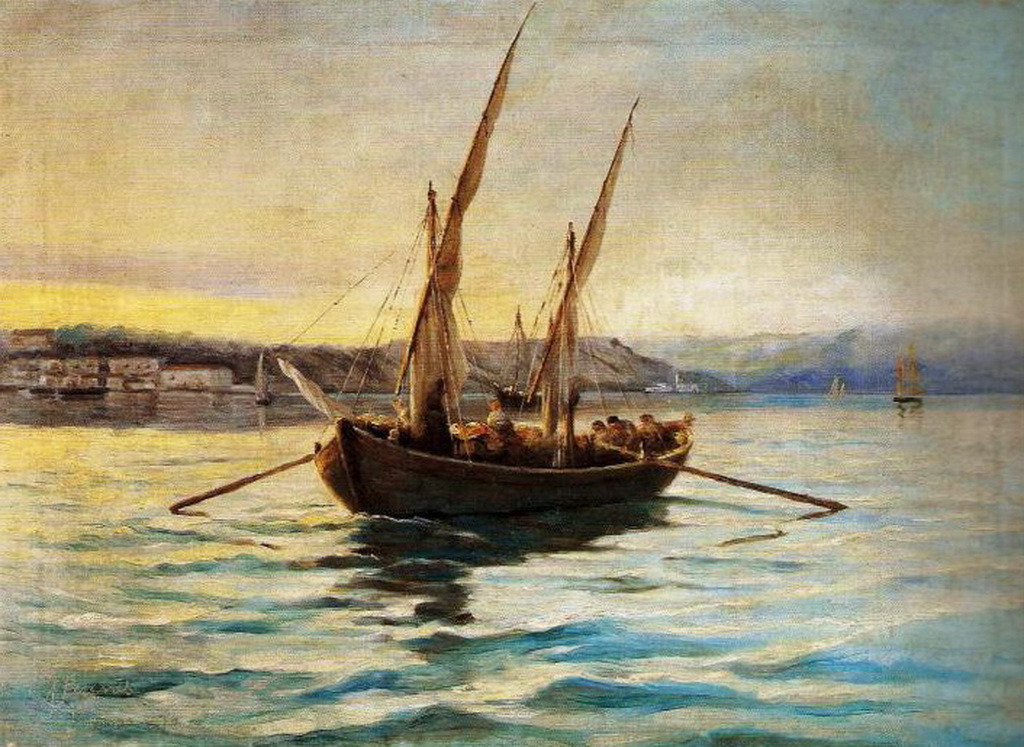 Sloop with fishermen